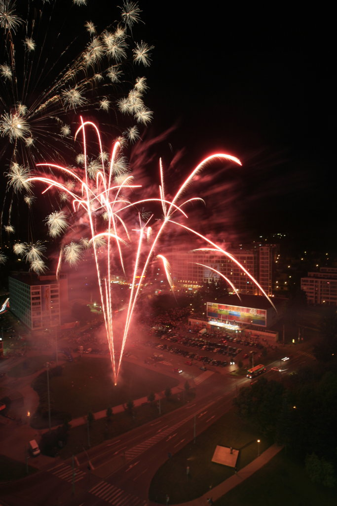 Film Festival Zlín opening party fireworks